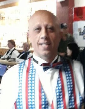 see file name